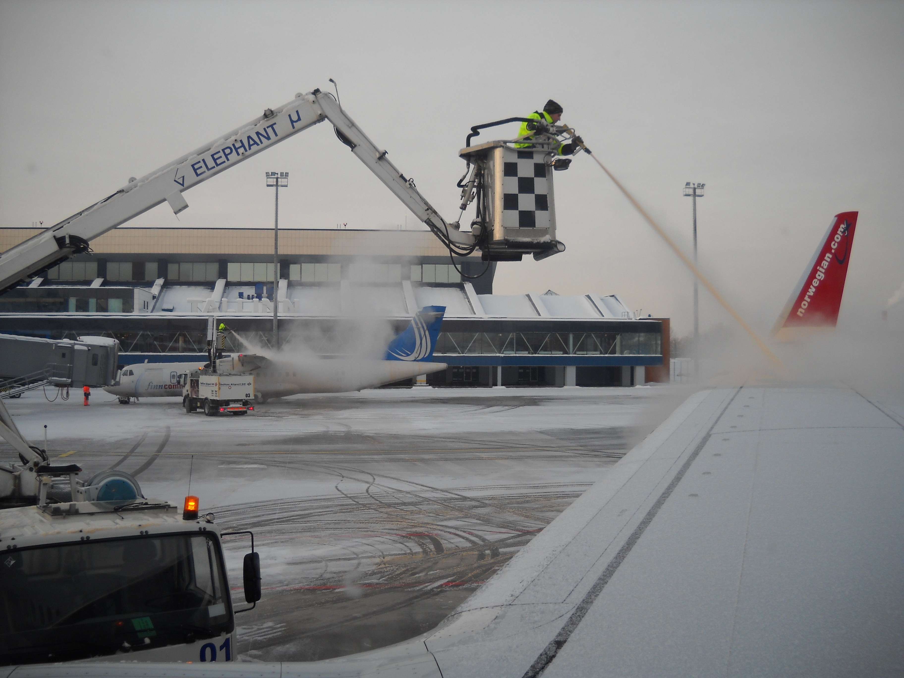 De-icing Norwegian Air Shuttle Boeing 737-800 Tallinn Airport